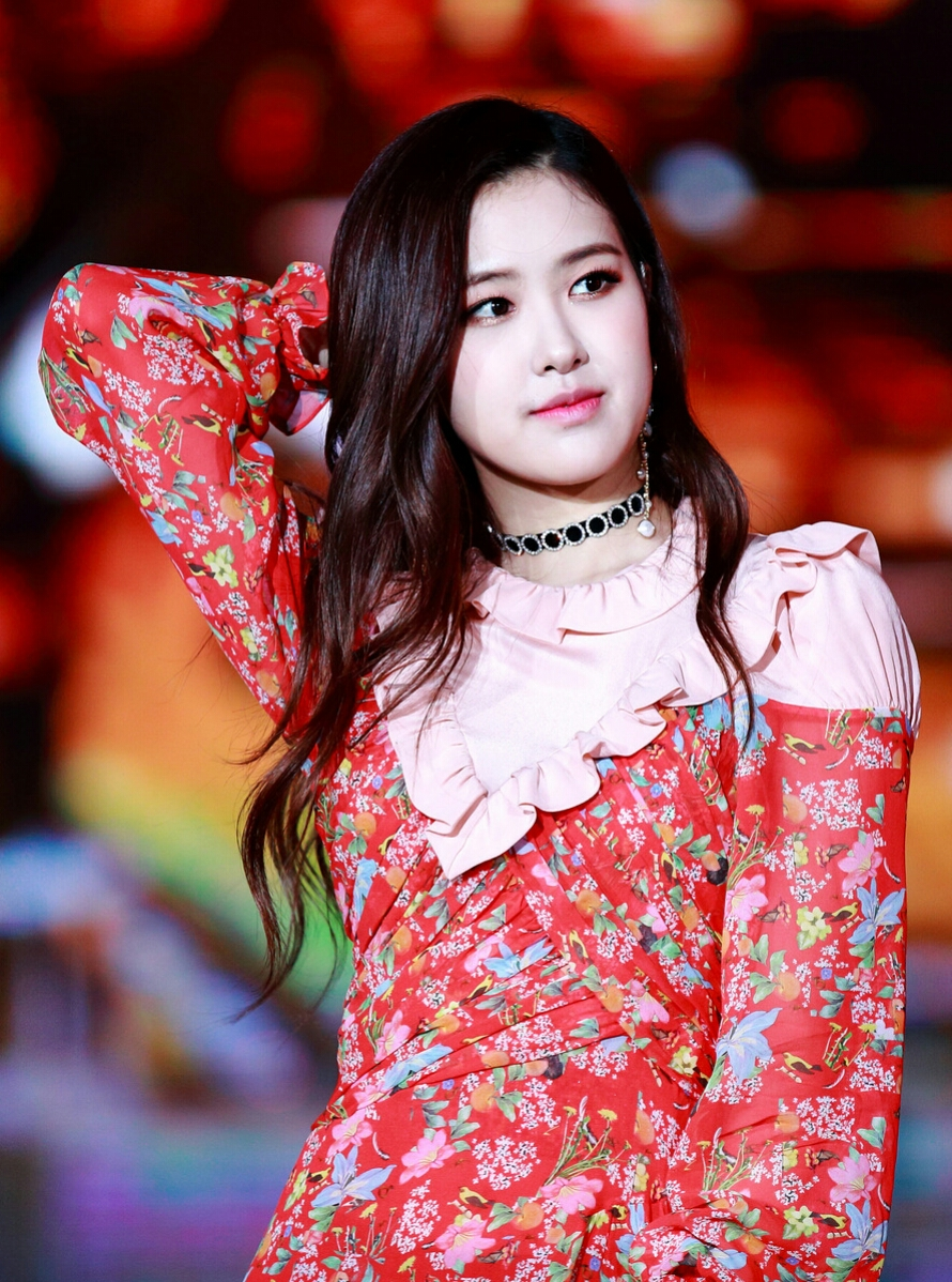 Rosé at Korea Music Festival on October 01, 2017.